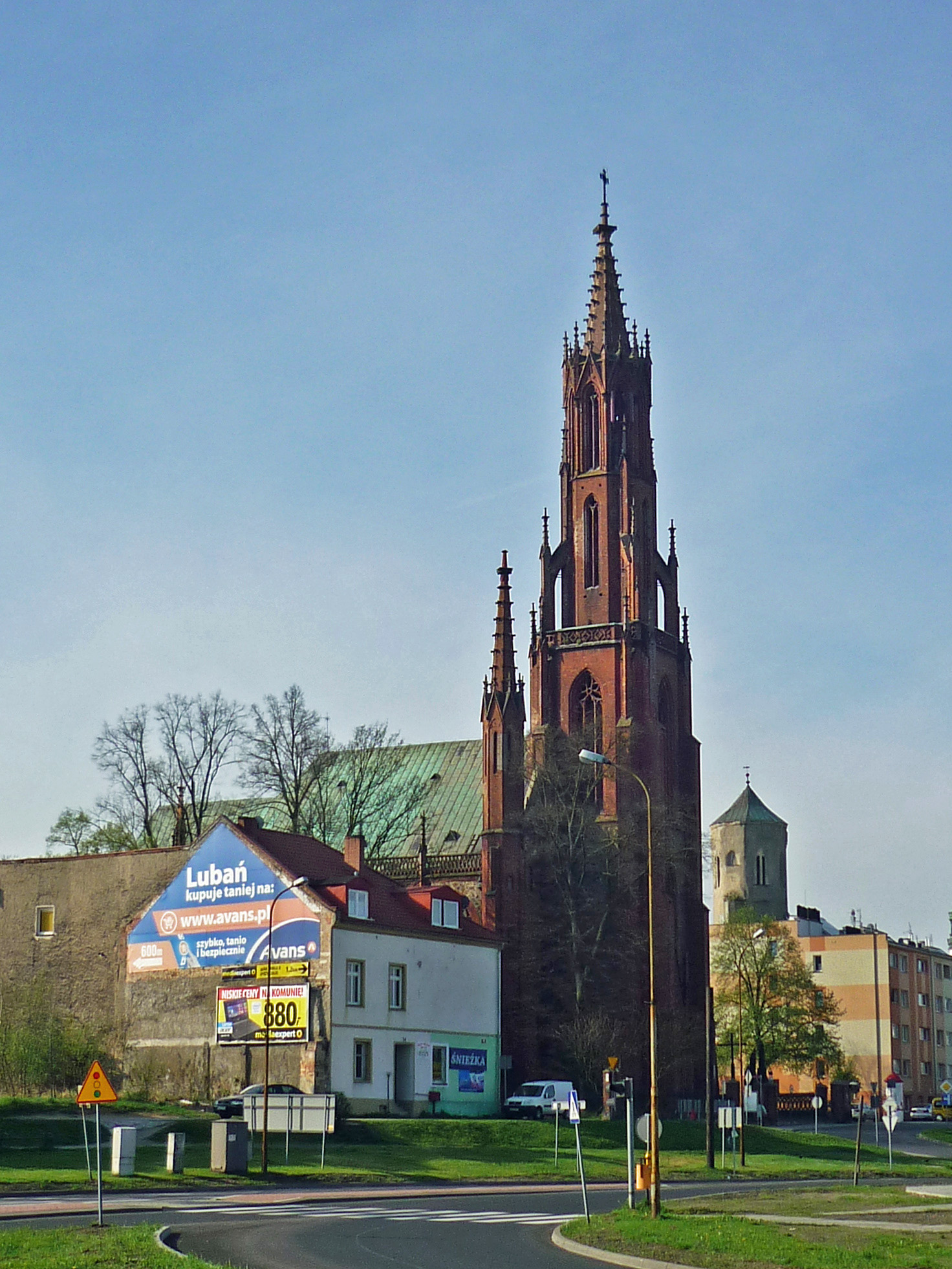 Holy Trinity church in Lubań, Poland.